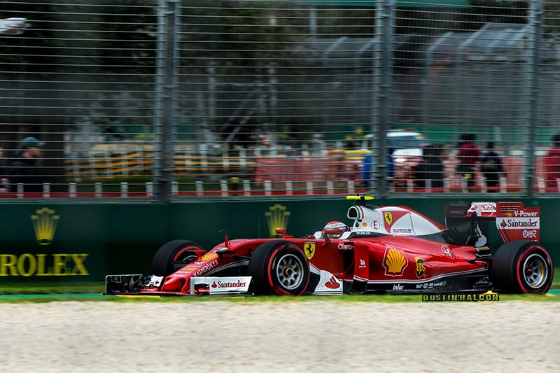 Kimi Räikkönen at the 2016 Australian Grand Prix